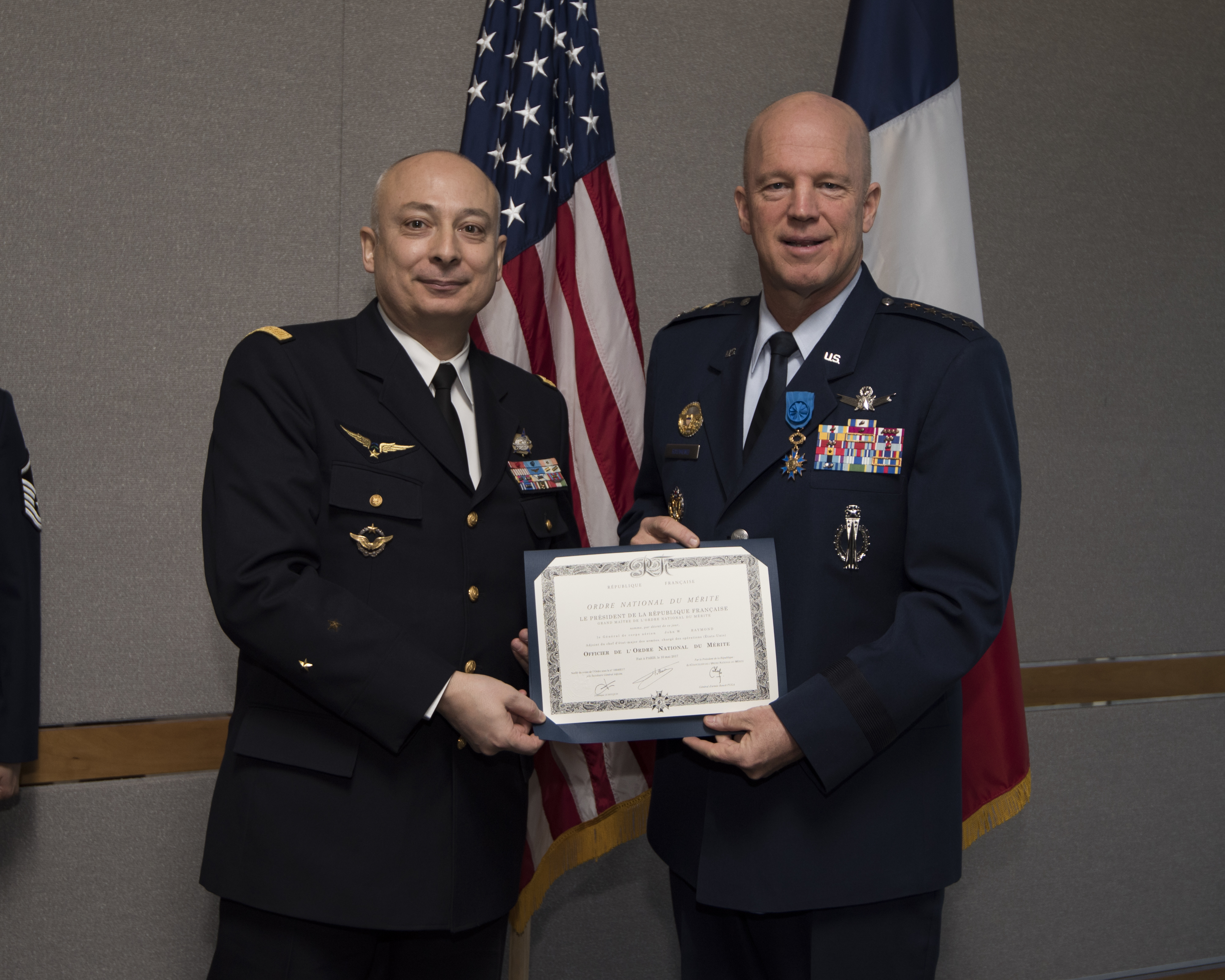 French Air Force Brigadier General Jean-Pascal Breton, Commander of French Joint Space Command, presents the French Order of Merit to U.S. Air Force Gen. Jay Raymond, Commander of Air Force Space Command, at Peterson Air Force Base, Colorado, April 16, 2018. The President of France named Raymond an Officer in the French National Order of merit for his contributions to French and American military cooperation. (U.S. Air Force photo by Dave Grim)